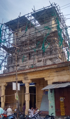 Thanjavur bangaru kamatchiamman temple தஞ்சாவூர் பங்காரு காமாட்சியம்மன் கோயில்